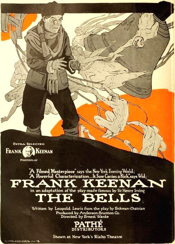 Ad for the American film The Bells (1918) with Frank Keenan, page 898 of the November 30, 1918 Moving Picture World.